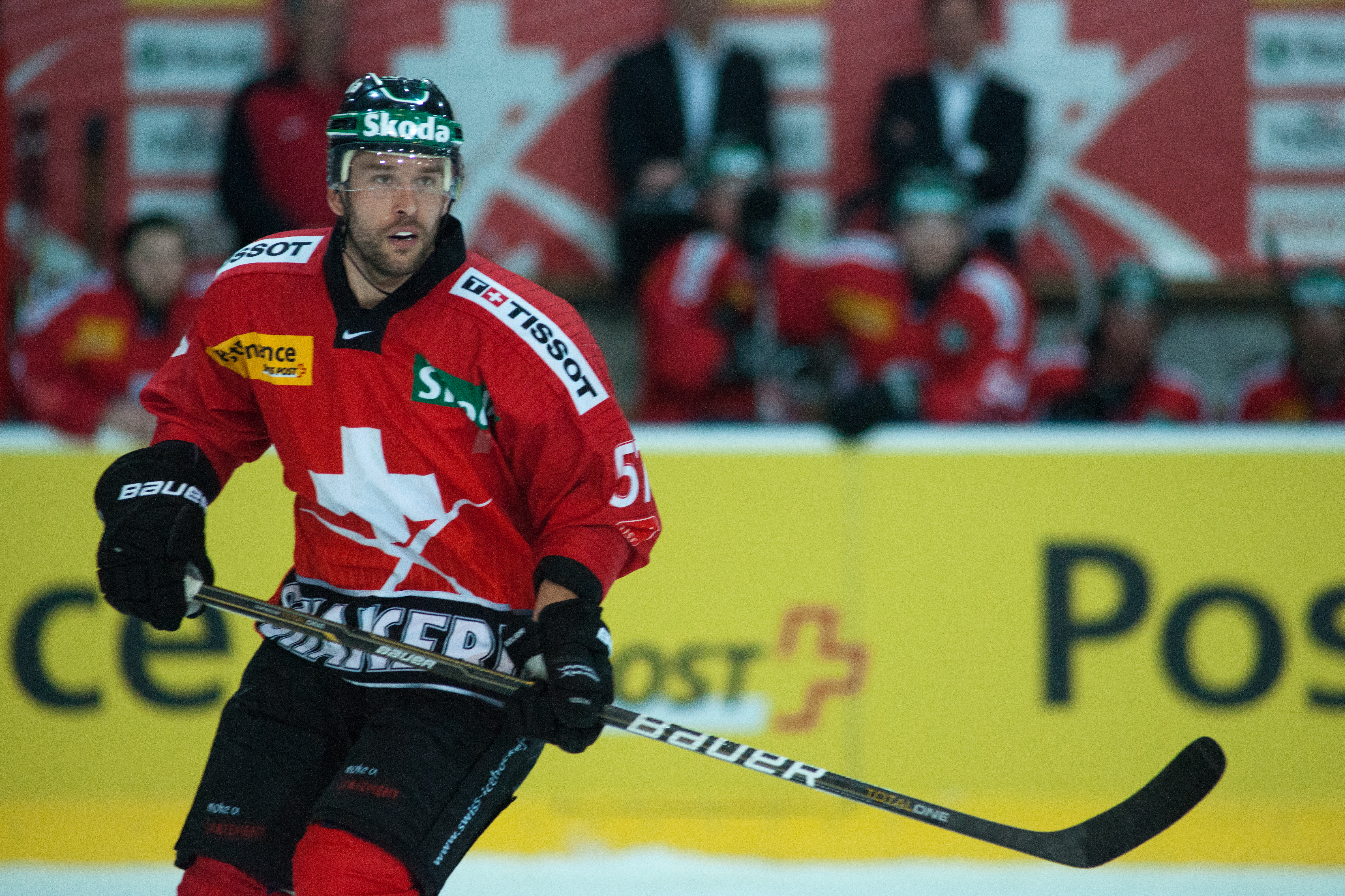 The making of this document was supported by Wikimedia CH. (Submit your project!) For all the files concerned, please see the category Supported by Wikimedia CH. Switzerland vs. Russia, 8th April 2011